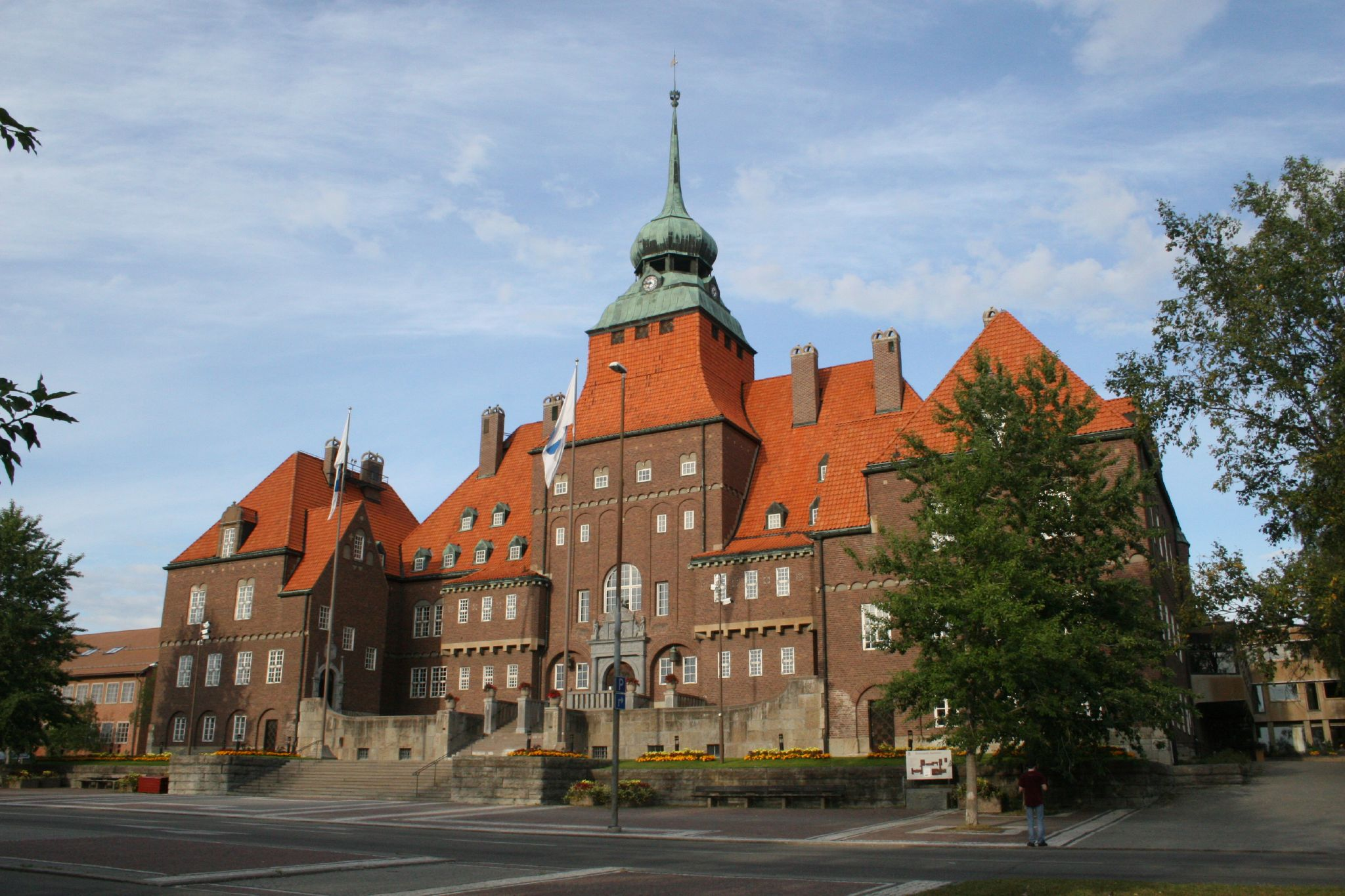 City hall in Östersund built 1912.